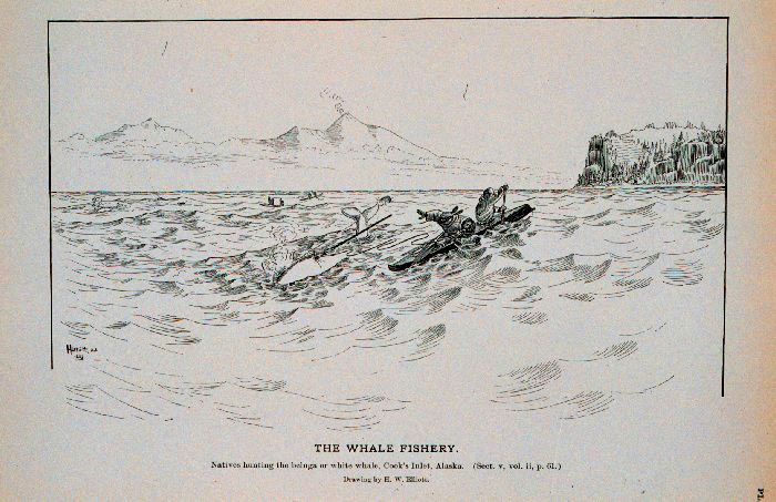 Natives harpooning the beluga, or white whale, at Cook's Inlet, Alaska Drawing by H. W. Elliott, 1883